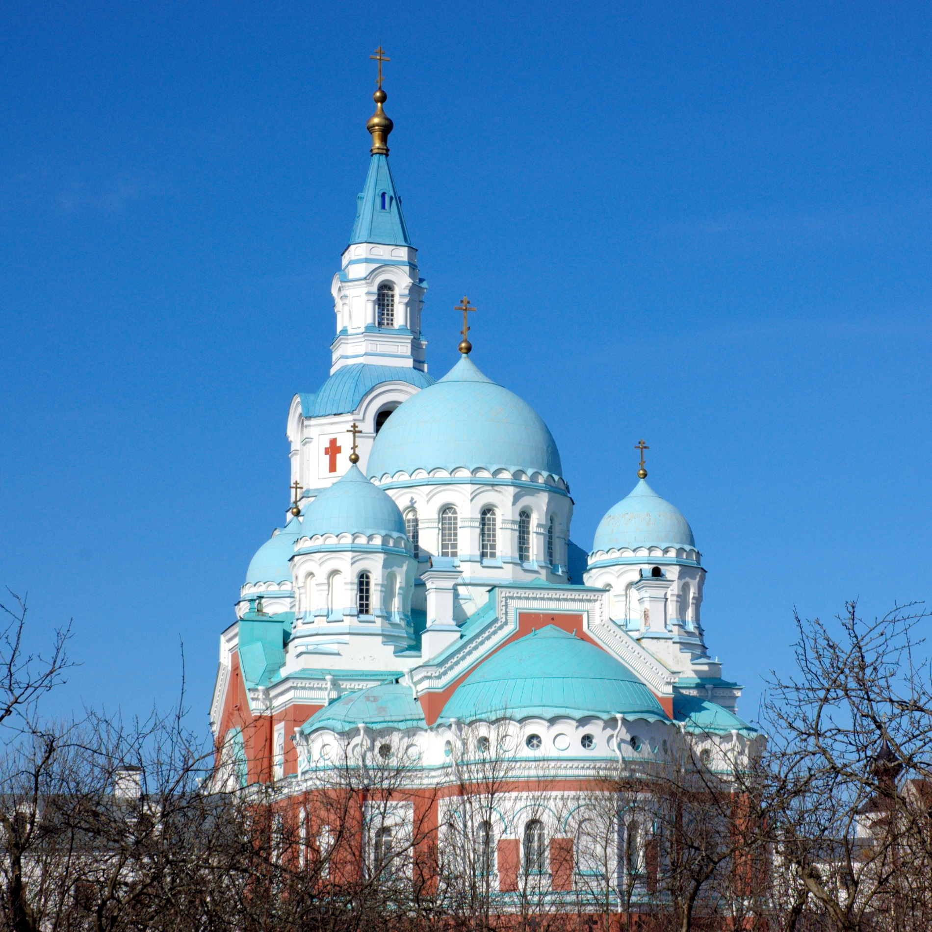 Valaam monastery. Spaso-Preobrazhensky cathedral. Main view